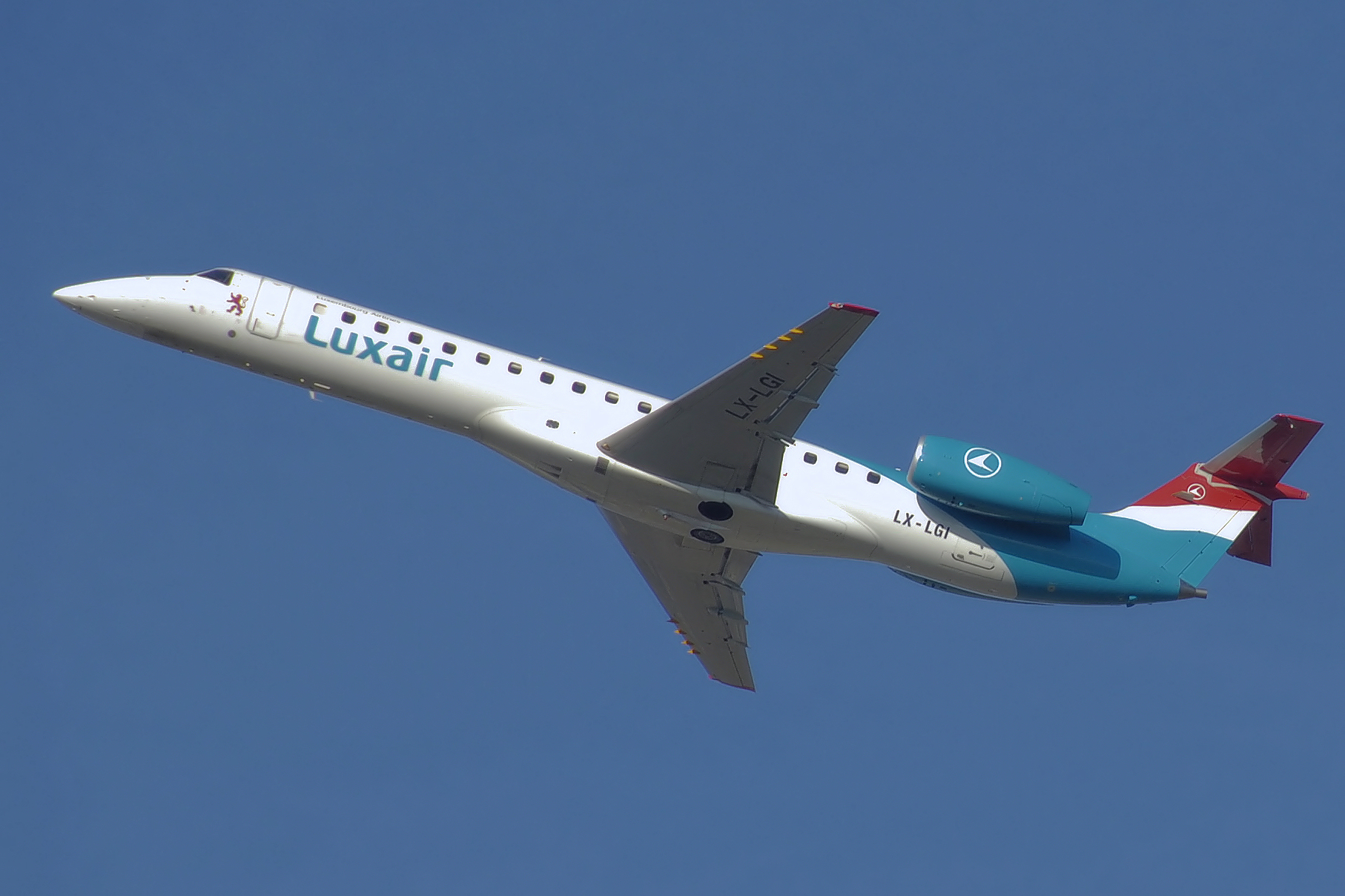 Luxair Embraer ERJ 145 (LX-LGI) takes off from London Heathrow Airport, England.